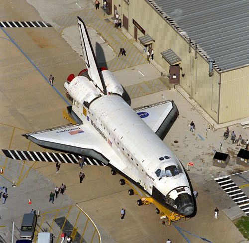 Rollover of the orbiter Discovery from the Orbiter Processing Facility Bay 2 to the Vehicle Assembly Building draws the attention of KSC employees. The orbiter displays the recently painted NASA logo, termed the meatball, on its left wing and both sides of the fuselage. Discovery (OV-103) is scheduled for its 25th flight, from Launch Pad 39B, on October 29, 1998, for the STS-95 mission.